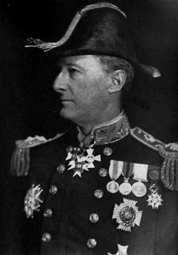 Portrait of William May